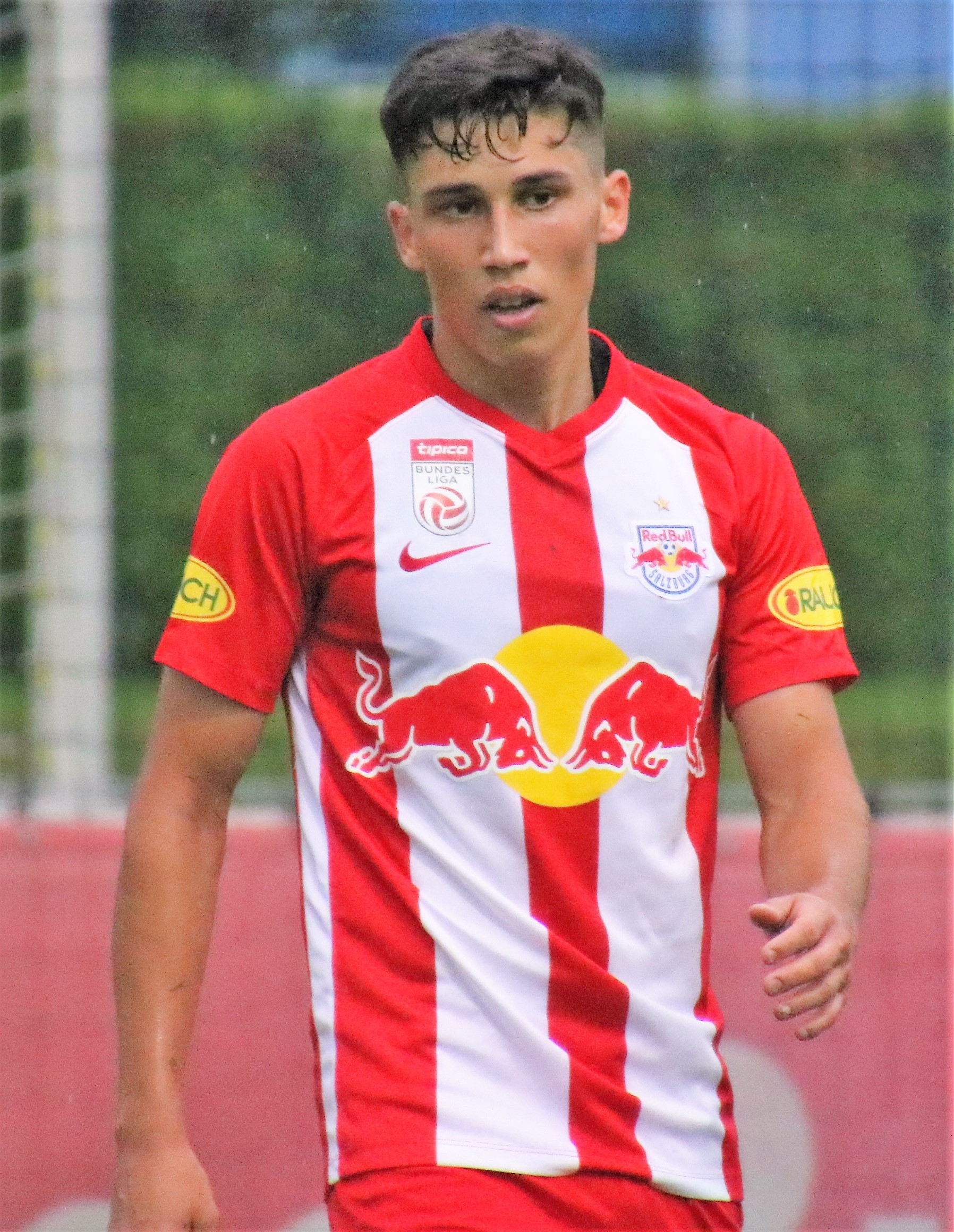 friendly match